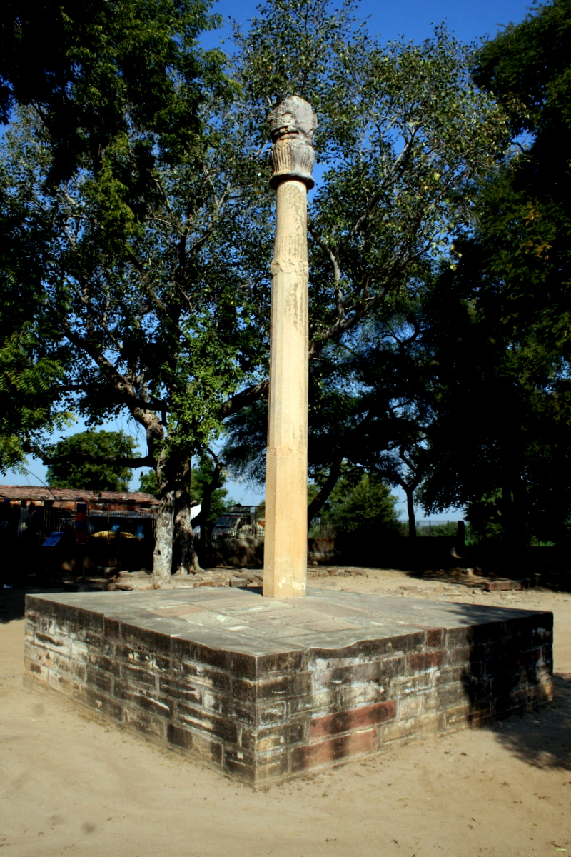 Heliodours Pillars locally known as Khan The Heliodorus pillar is a stone column that was erected around 110 BCE in central India in Vidisha near modern Besnagar, by Heliodorus, a Greek ambassador of theIndo-Greek king Antialcidas to the court of the Sunga king Bhagabhadra. The site is located only 5 miles from the Buddhist stupa of Sanchi. The pillar was surmounted by a sculpture of Garuda and was apparently dedicated by Heliodorus to the god Vasudeva in front of the temple of Vasudeva